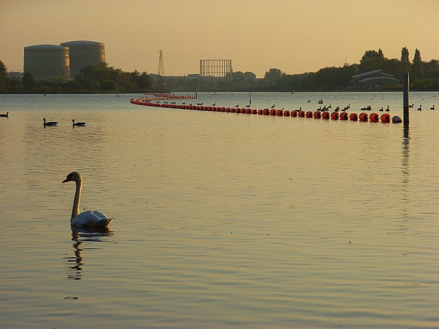 Former gravel pit, Sonning. The gravel pits occupy a large swath of the flood plain between Sonning Eye and Caversham. They are now used for watersports and fishing and attract a lot of wildfowl. The building to the right is a new rowing centre. The gasworks is in the east end of Reading, a couple of miles away. For the same view in winter see 657828.